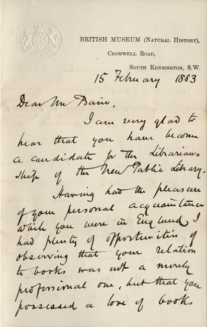 This is a estimonial Letter in Support of James Bain for the Position of Chief Librarian of the New Toronto Public Library, written by the Keeper of the Department of Botany in the British Museum on February 15, 1883. On loan from the Bain family Creator: N. Carruthers, Keeper of the Department of Botany, British Museum, London, England Date: February 15, 1883 Identifier: testimonial-letter-2-p1 Format: Manuscript Rights: Public domain Courtesy: Toronto Public Library. More information: (read letter, with transcription) This image is available from the Toronto Public Library under the reference number testimonial-letter-2-p1This tag does not indicate the copyright status of the attached work. A normal copyright tag is still required. See Commons:Licensing for more information. English | français | +/−